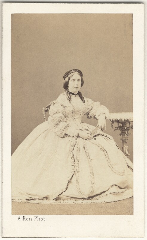 Frances Anne duchess of Marlborough